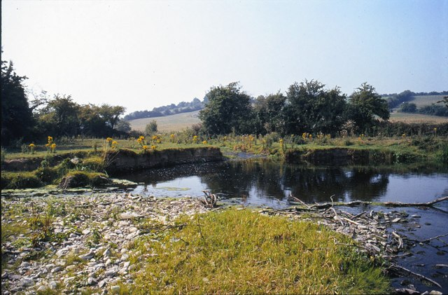 Ford at Monknewtown, Co. Meath Ford over the Mattock River connecting the townlands of Monknewtown, Co. Meath, and Keerhan, Co. Louth.